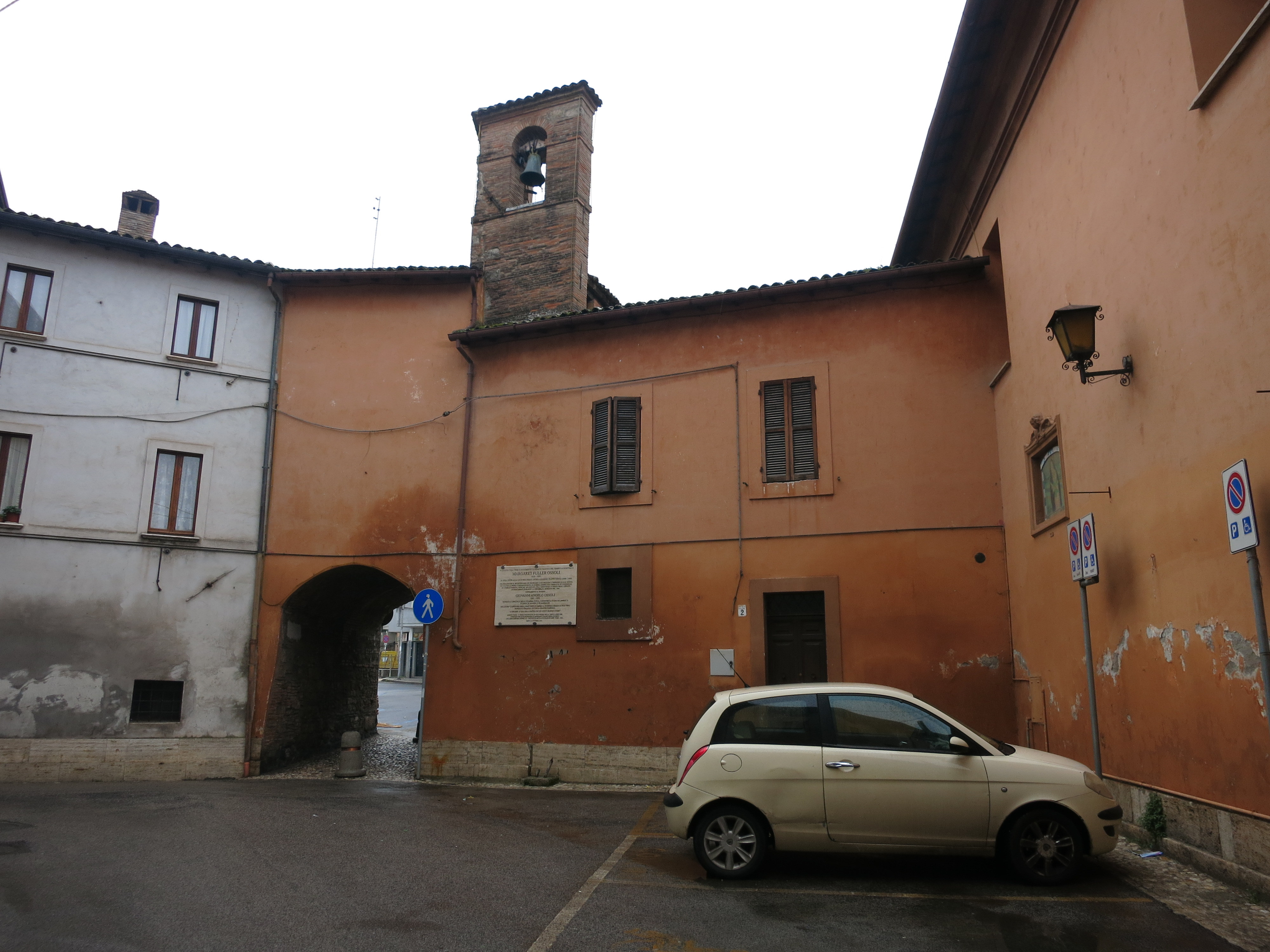 Saint Nicholas church - Rieti, Lazio, Italia